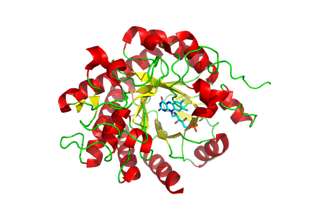 12-oxophytodienoate reductase isomers OPR3 (blue) and OPR1 (green) with FMN cofactor (pink).